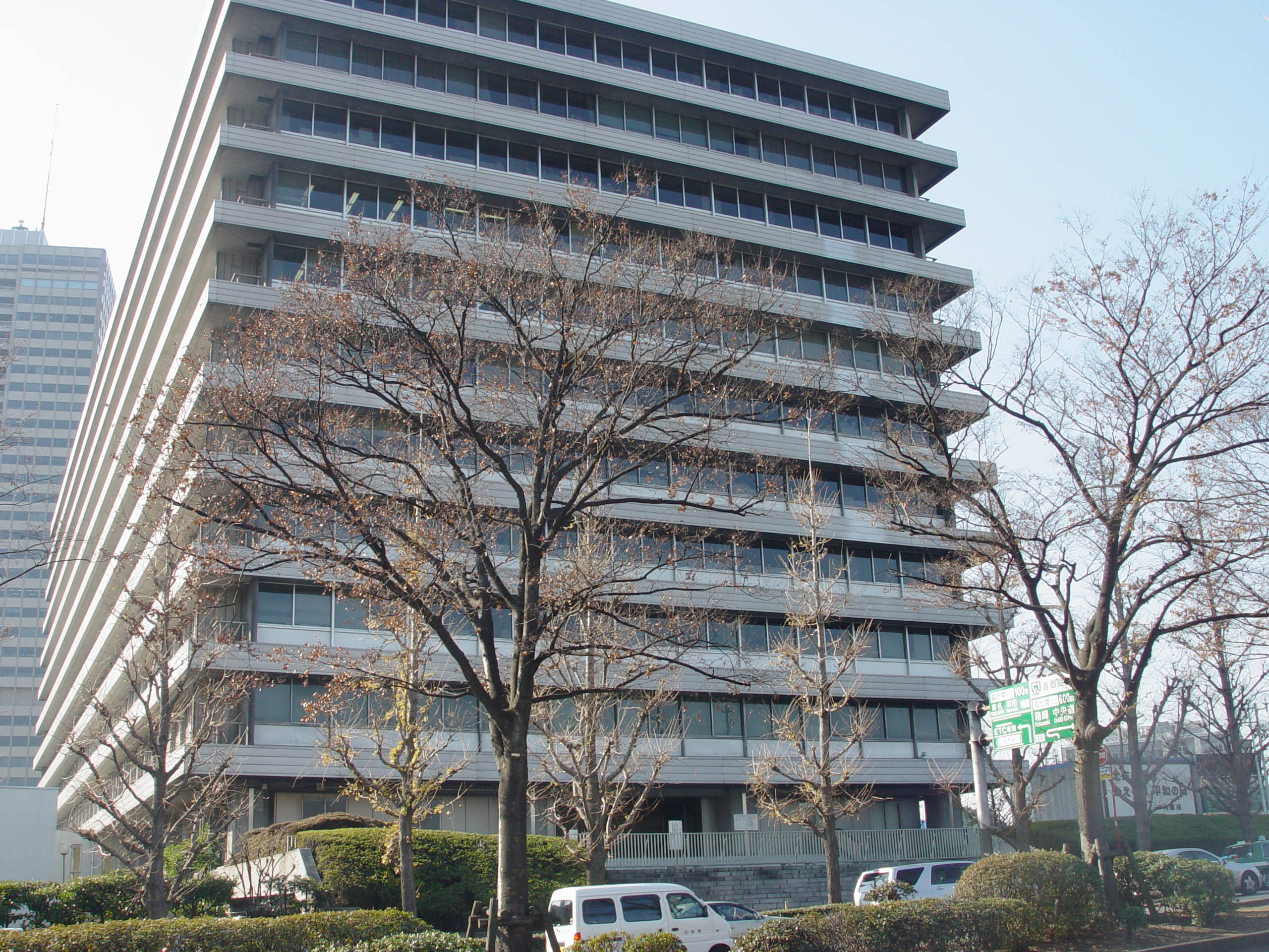 Public office building, Japan: The Financial Services Agency The Cabinet Legislation Bureau The Cabinet Office The Securities and Exchange Surveillance Commission The Environmental Dispute Coordination Commission 庁舎： 金融庁 内閣法制局 内閣府 証券取引等監視委員会 公害等調整委員会